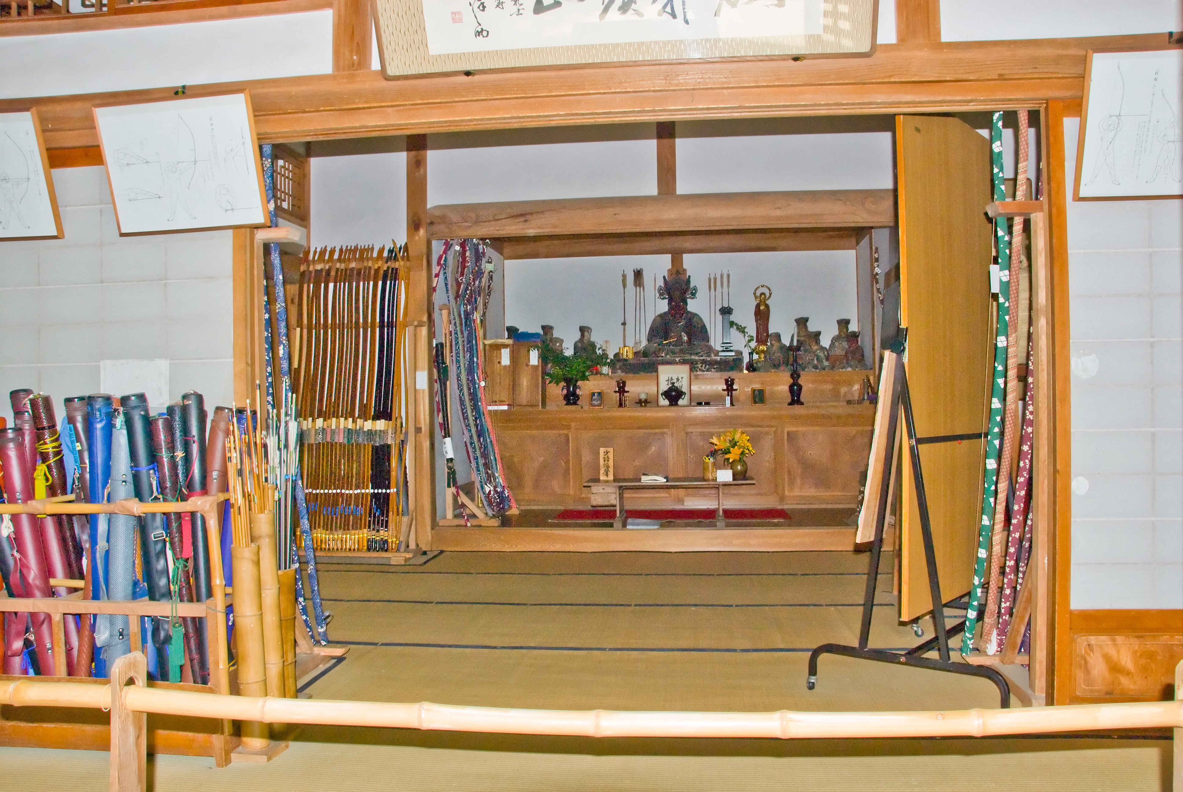 A pavilion full of bows and quivers at Enkaku-ji, Kamakura, Japan